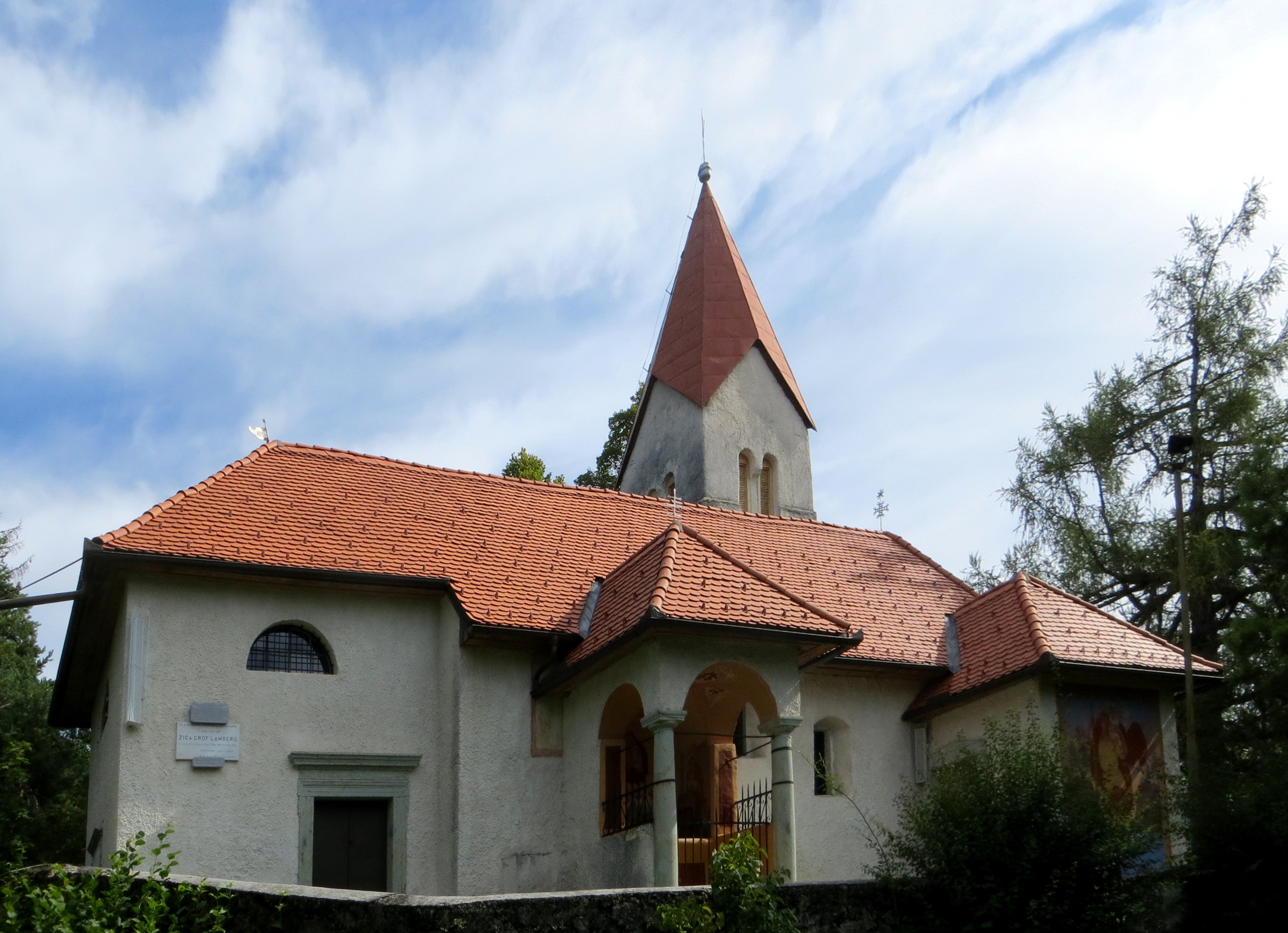 Saint George's Church in Bistrica pri Tržiču, Municipality of Tržič, Slovenia